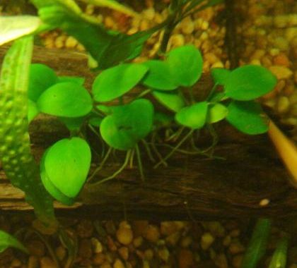 Author: Ebogdan Description: contains a picture of a Anubias barteri var. nana on a bogwood. copied from Image:Anubias barteri var nana on a bogwood.jpg